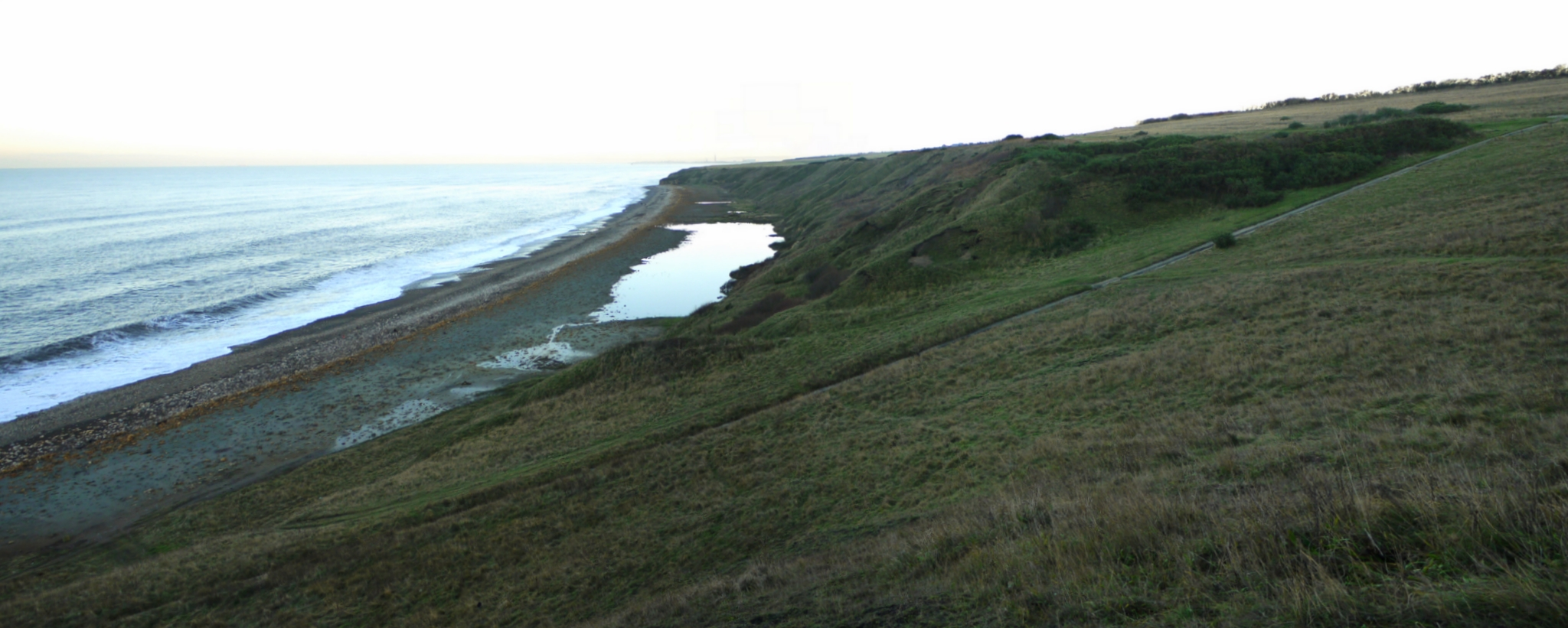 Site of aerial conveyor, Blackhall Colliery. The diagonal concrete channel running down the cliff is close to the site of 'Aerial Flight', a cable-operated bucket conveyor system that transferred mine waste from Blackhall Colliery to a dump just offshore The old photograph shows the cable-way in operation in 1929 but it only appears briefly on the large scale OS maps in the 1950s, and only the tower bases depicted in the following 1960s edition. However, it was clearly still operating in the summer of 1970, as it featured in the closing violent scenes of the iconic north-east film, 'Get Carter', starring Michael Caine There is another photograph of the site today here 1610048 A similar cableway operated from Easington Colliery 1581907